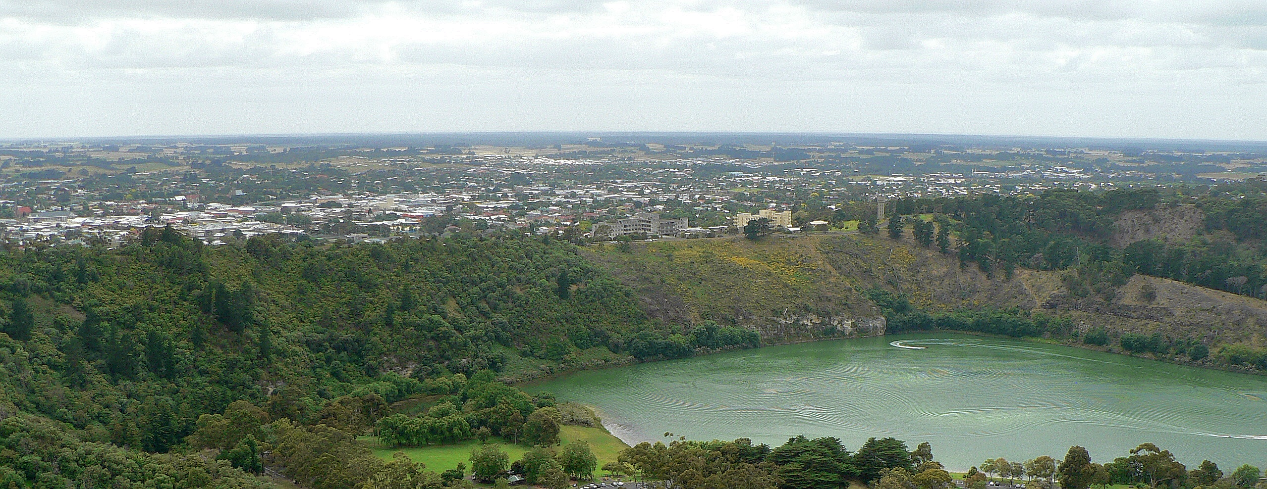 View of Mount Gambier from Centenery Tower